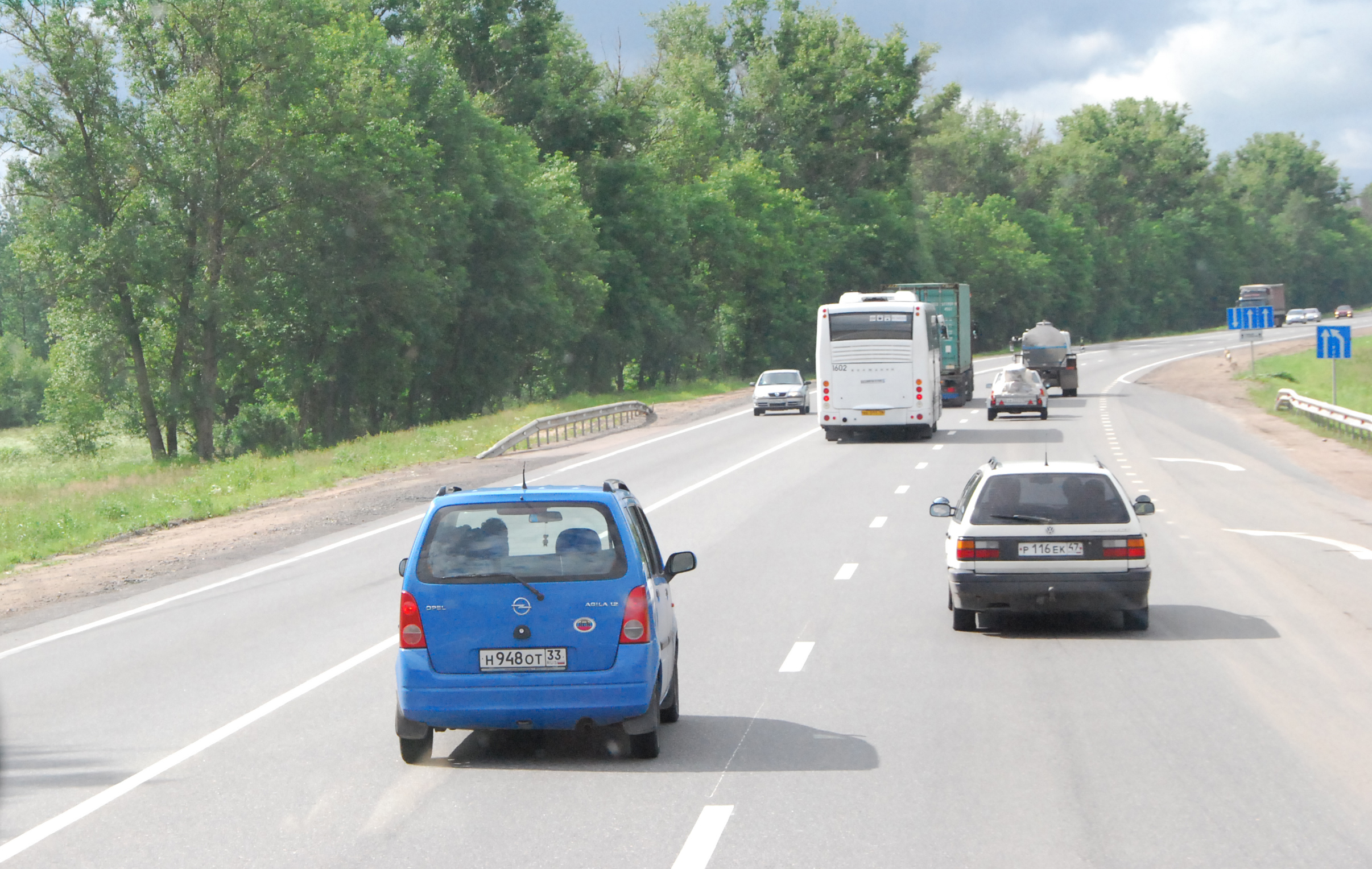 M10 Highway, Russia (Part of E105 Highway, Europe) (in the suburbs of Novgorodaccording to what Yoshi Canopus wrote on European route E105)